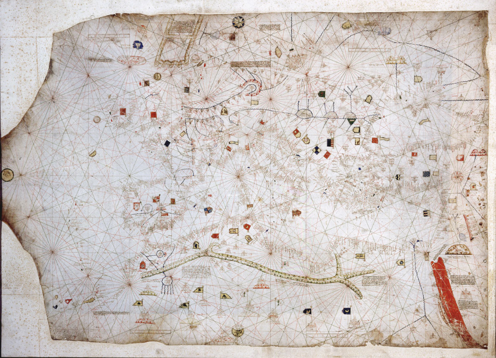 Anonymous Catalan chart, possibly made in the atelier of Cresques Abraham of Majorca, c. 1375-1400. Currently held by the Biblioteca Nazionale Vittorio Emanuele III in Naples, Italy.(Ms. XII.D.102)